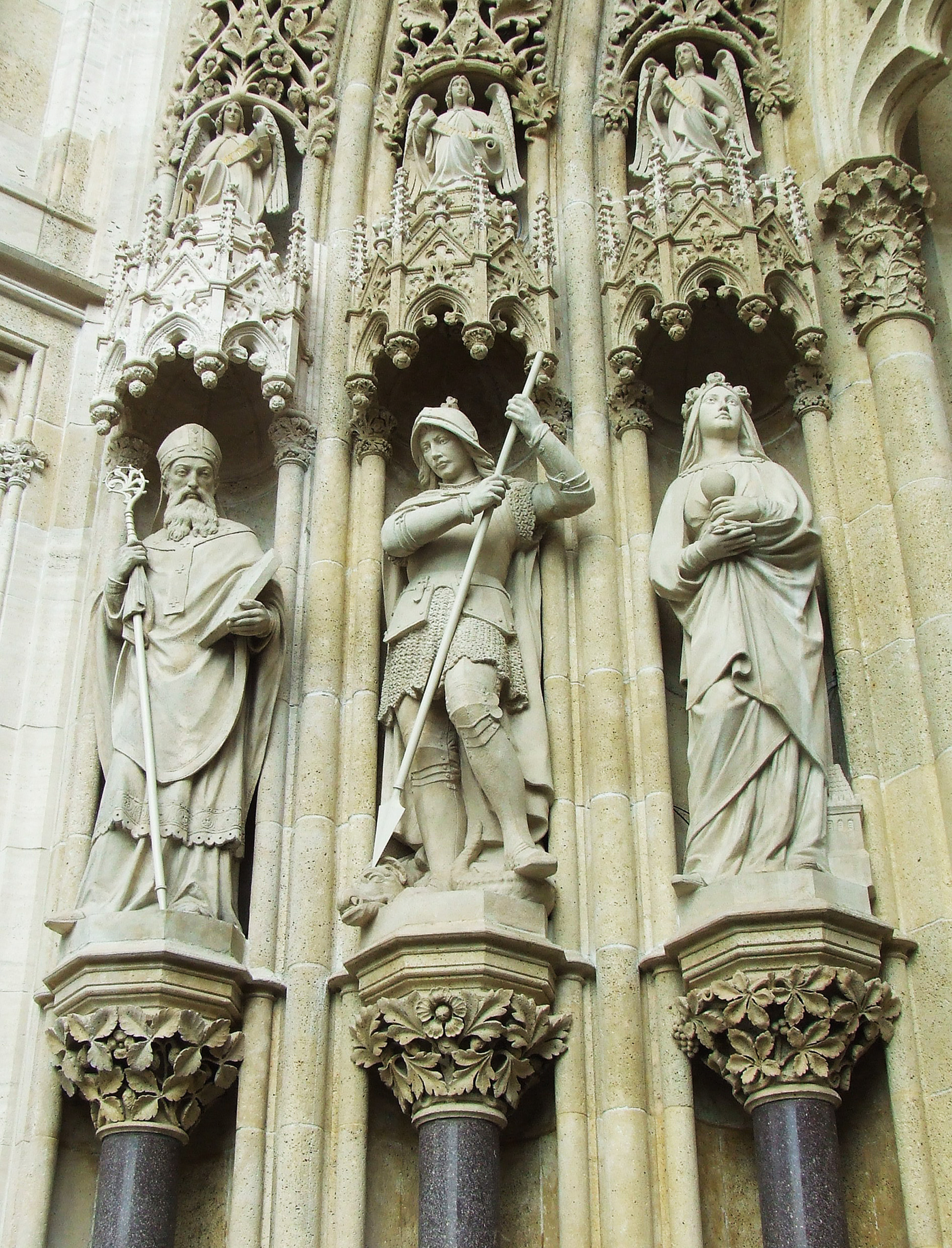 St. George (in the middle), one of portal plastics on Zagreb's cathedral on Kaptol square.